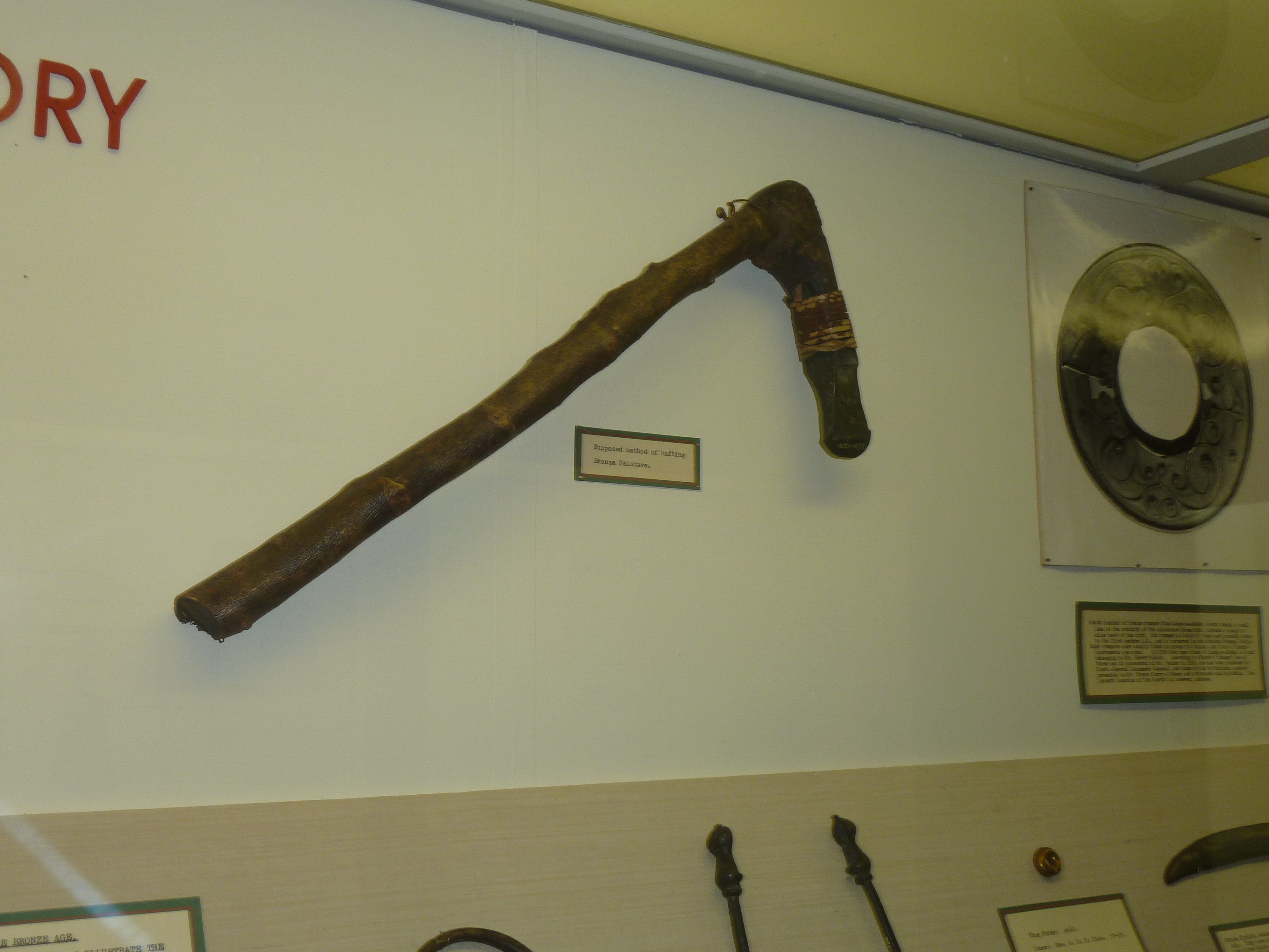 Prehistory Armagh Museumcu